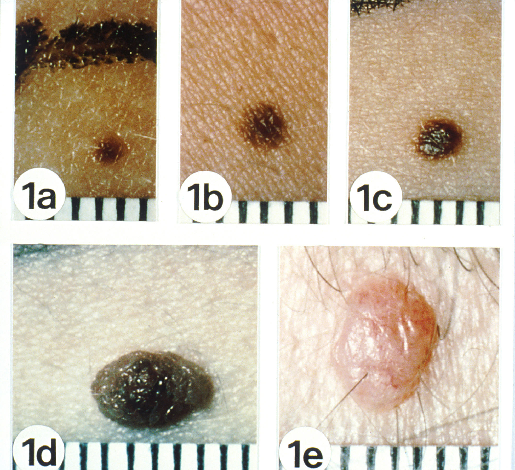 Natural history of common acquired nevi. Ordinary moles begin as uniformly tan or brown macules, 1 to 2 mm in diameter (a), expand to a larger macule (b), progress to a pigmented papule that may be minimally (c) or obviously (d) elevated above the surface of the skin, and terminate as a pink or flesh-colored papule (e). These lesions are junctional (a,b), compound (c,d), and dermal (e) nevi, respectively. Note their smooth borders and clear demarcation from the surrounding skin.